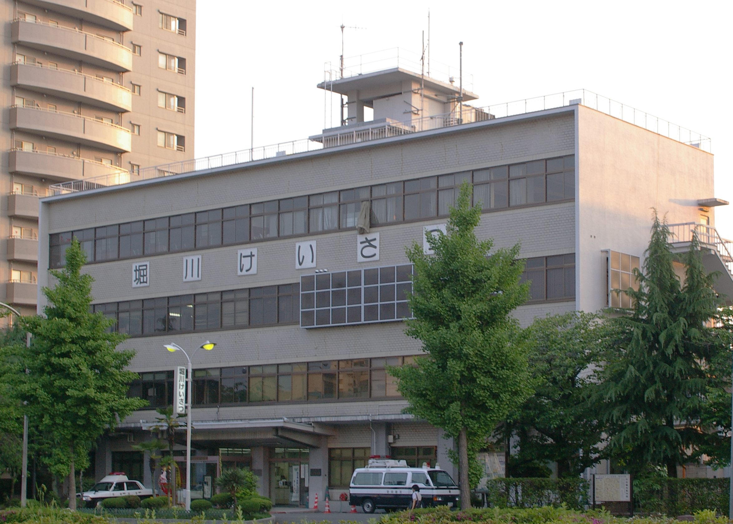 Photograph of Horikawa Police Station in Shimogyo-ku, Kyoto, Kyoto Prefecture, Japan.